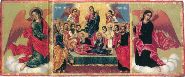 Assumption_of_Mary_Icon_by_Toma_Vishanov in Saint George Church in Razlog.